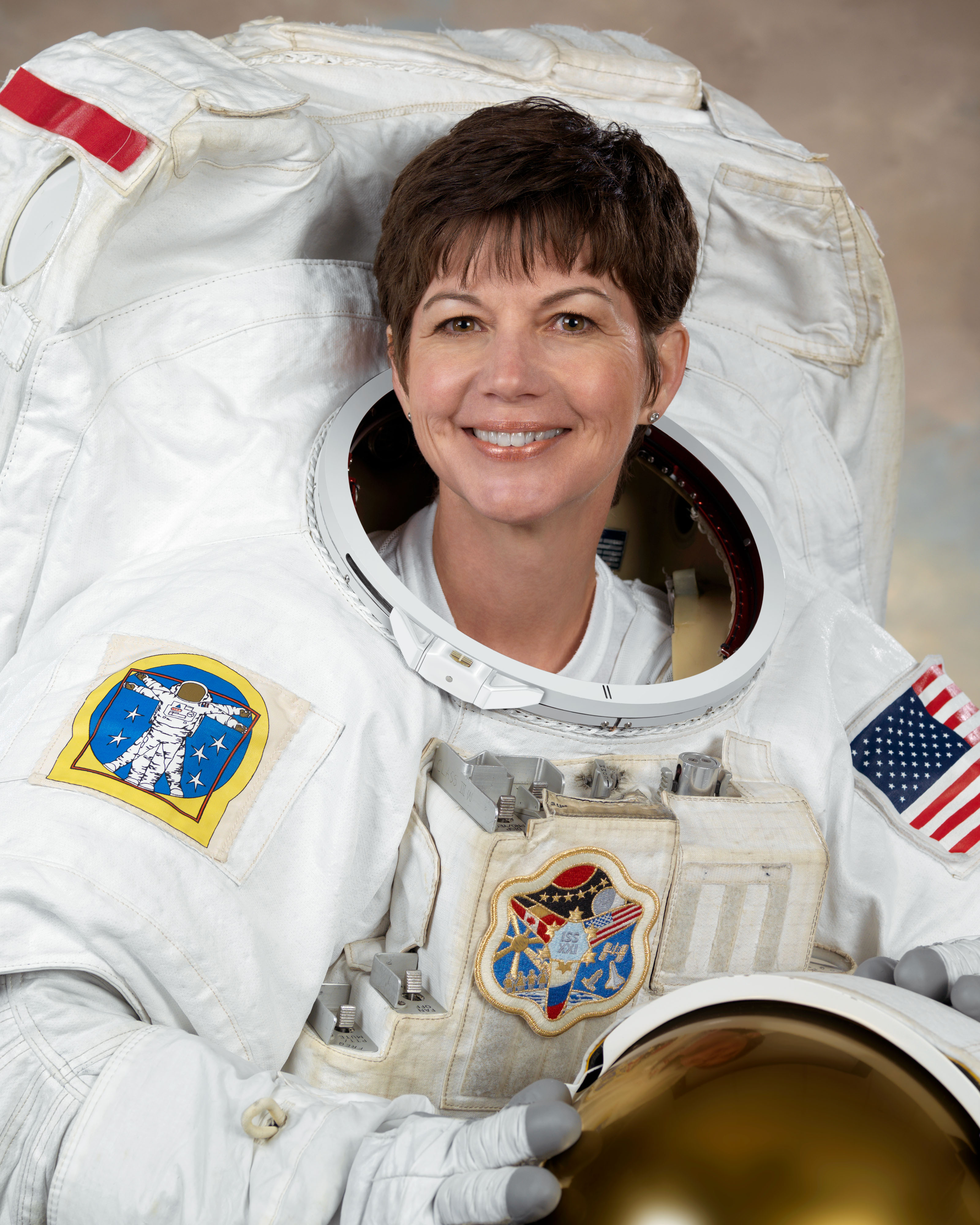 Astronaut Catherine G. Coleman, ISS flight engineer